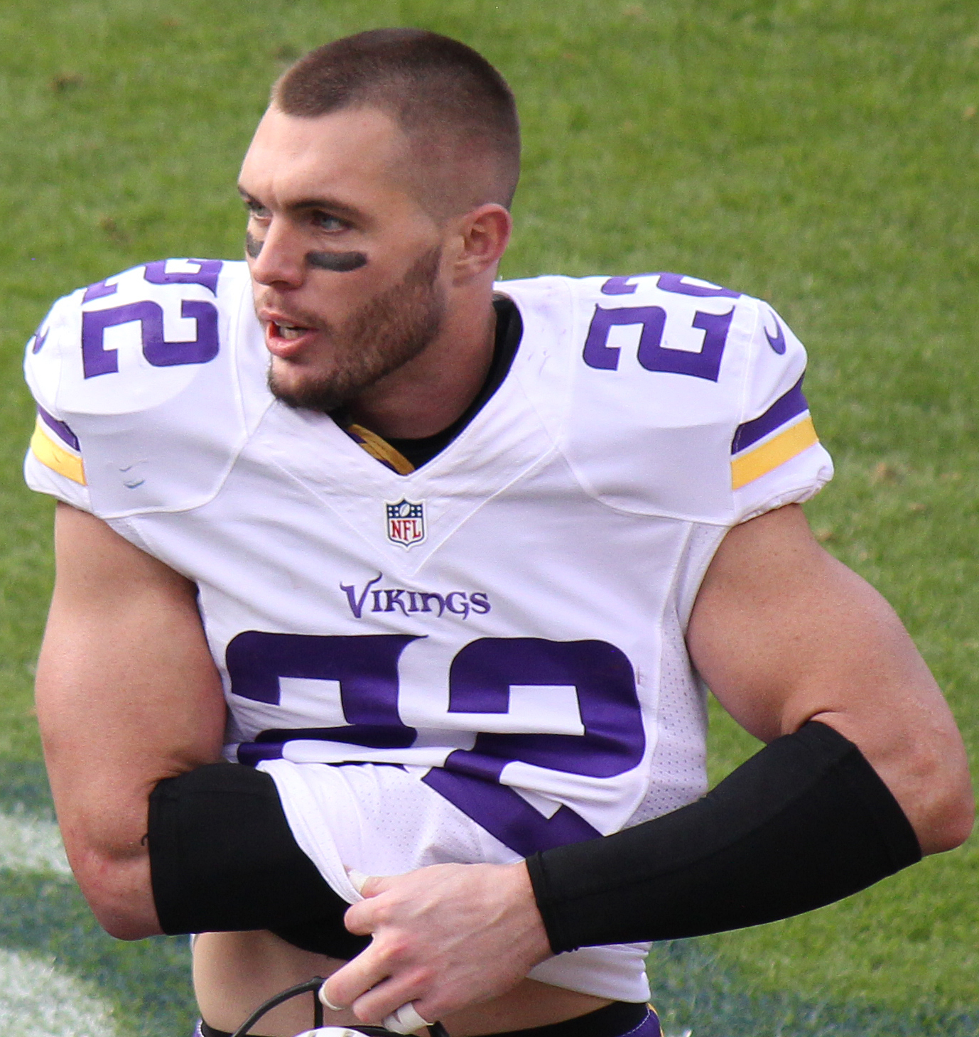 Harrison Smith, a player on the National Football league.